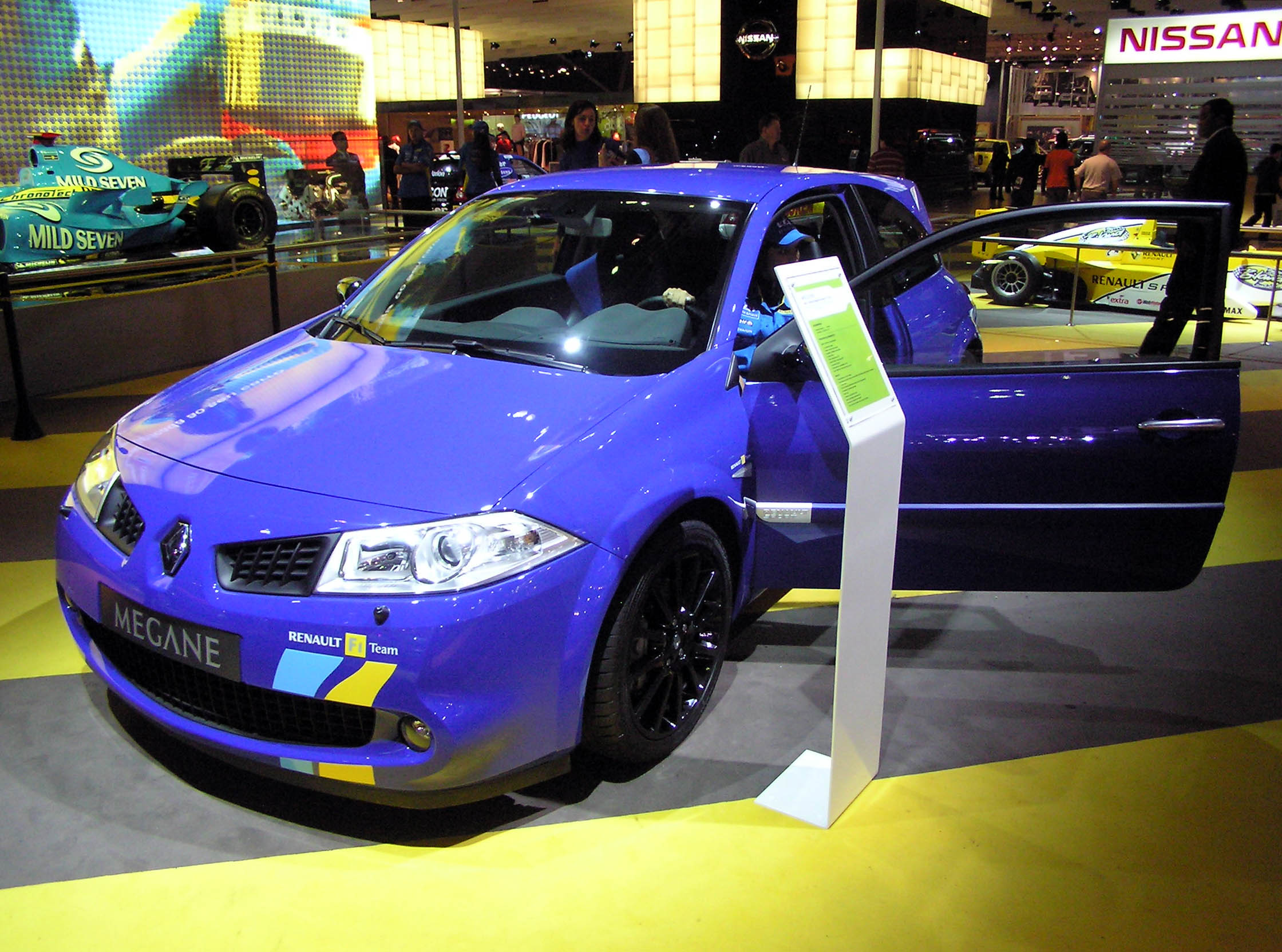 Renault Megane at the Salão Internacional do Automóvel (International Automobile Trade Show).